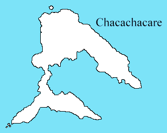 Map of the Island of Chacachacare, Trinidad and Tobago